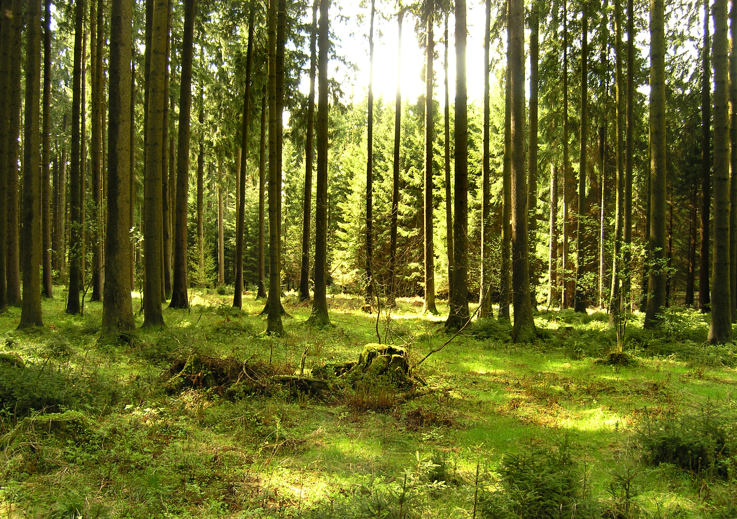 Huťský potok natural reserve by Benešov, part of Černovice village, Czech Republic